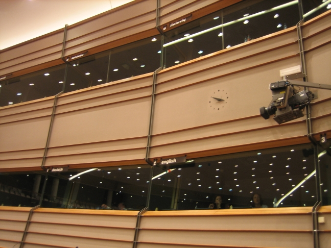 Translation booths in the hemicycle of the European Parliament (Brussels).